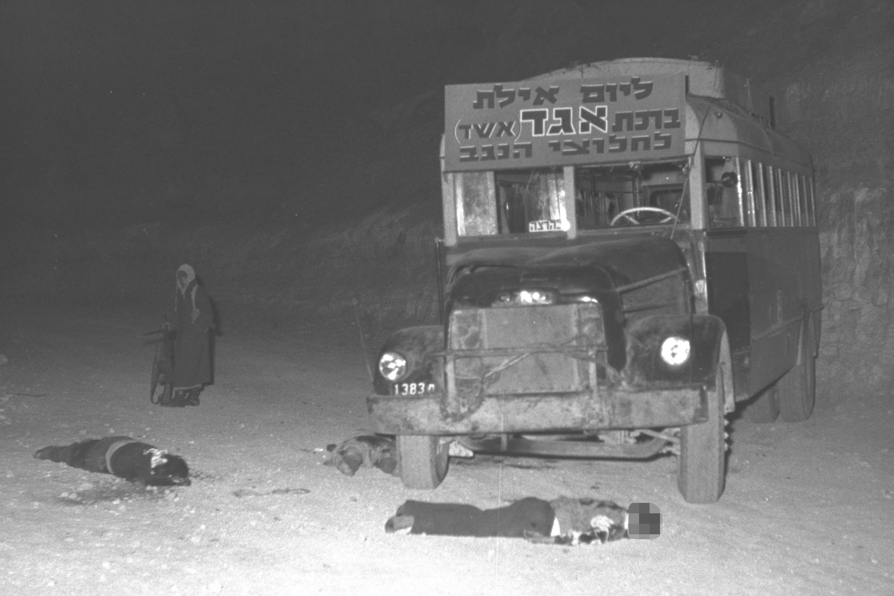 AMBUSHED EGGED BUS AND THREE VICTIMS FROM EILAT TO BEER SHEVA, MAALE AKRABIM (SCROPION'S PASS). SIGN ON BUS READS: "EILAT DAY" AND "BEST WISHES.".